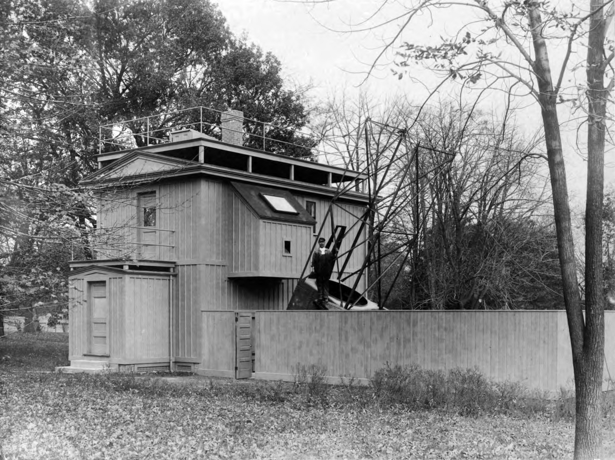 Harvard college observatory: 60 inch Reflector